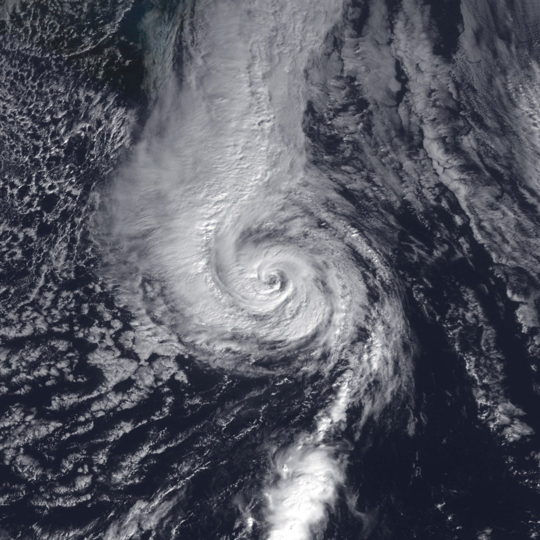 Hurricane Tanya near peak intensity in the Atlantic on October 31, 1995